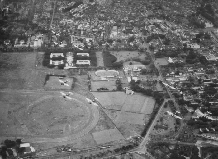 On the upper left place todays National Museum. Inflight photo with Glenn Martin bombers of the Royal Netherland Indian Army (KNIL) over the "Koningsplein" in Batavia.